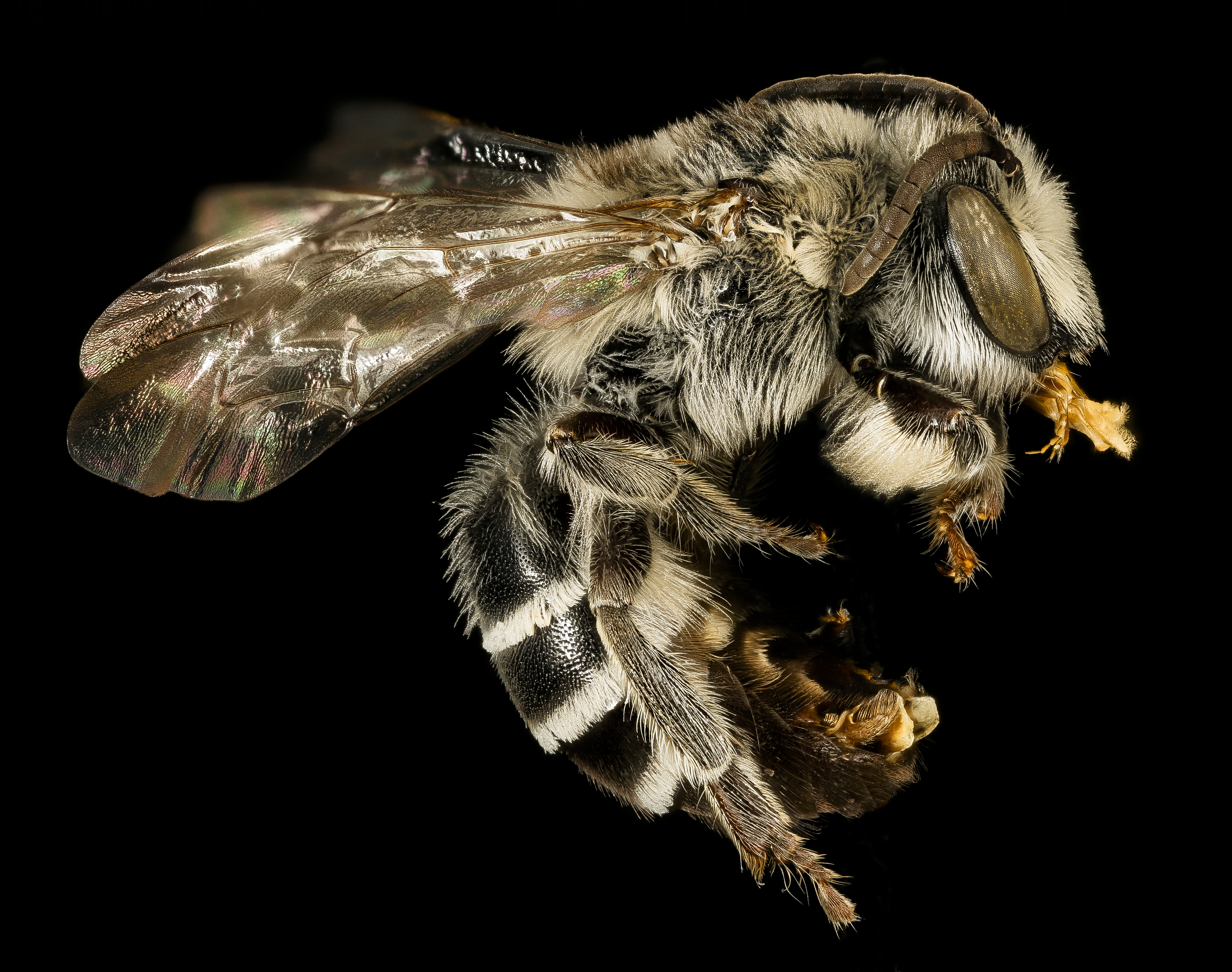 This bee collects pollen from the weedy, but native, Physalis or ground cherry plants. The flowers of this group are low and dangly and tend to be overlooked as does Colletes latitarsis. Likely more common than would appear as it rarely goes into traps and is hard to find unless hunted for directly. Joe Milone was the photographer. 00:24, 3 May 2016 (UTC)00:24, 3 May 2016 (UTC) 0 00:24, 3 May 2016 (UTC)00:24, 3 May 2016 (UTC) All photographs are public domain, feel free to download and use as you wish. Photography Information: Canon Mark II 5D, Zerene Stacker, Stackshot Sled, 65mm Canon MP-E 1-5X macro lens, Twin Macro Flash in Styrofoam Cooler, F5.0, ISO 100, Shutter Speed 200 Beauty is truth, truth beauty - that is all Ye know on earth and all ye need to know " Ode on a Grecian Urn" John Keats You can also follow us on Instagram - account = USGSBIML Want some Useful Links to the Techniques We Use? Well now here you go Citizen: Art Photo Book: Bees: An Up-Close Look at Pollinators Around the World Basic USGSBIML set up: USGSBIML Photoshopping Technique: Note that we now have added using the burn tool at 50% opacity set to shadows to clean up the halos that bleed into the black background from "hot" color sections of the picture. PDF of Basic USGSBIML Photography Set Up: ftp://ftpext.usgs.gov/pub/er/md/laurel/Droege/How%20to%20Take%20MacroPhotographs%20of%20Insects%20BIML%20Lab2.pdf Google Hangout Demonstration of Techniques: or Excellent Technical Form on Stacking: Contact information: Sam Droege 301 497 5840